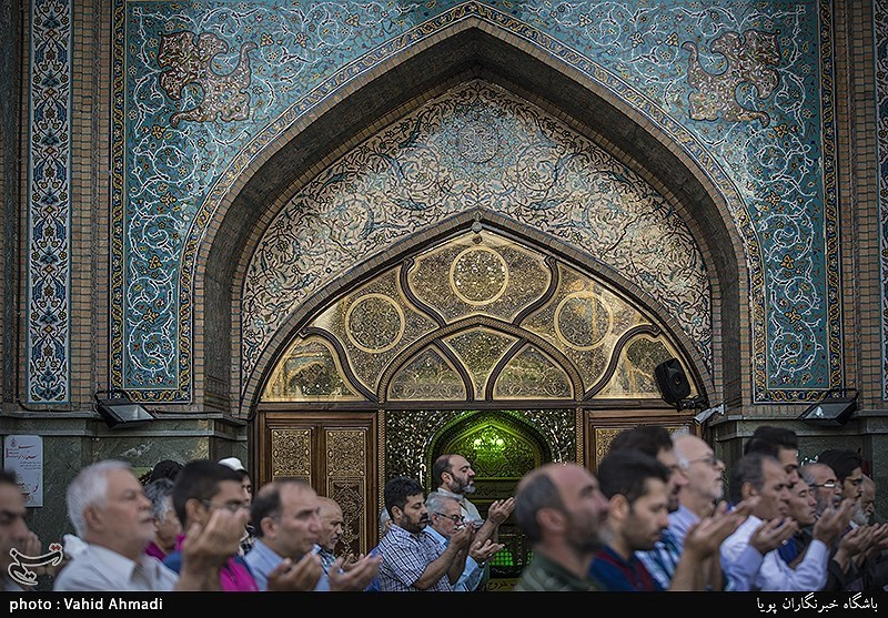 Iranians holding Eid al-Fitr prayer in Imamzadeh Saleh shrine, Tehran, Iran